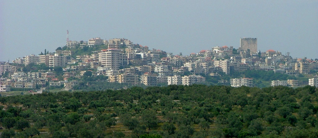 Overview of Safita